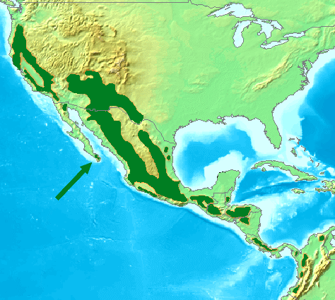 Melanerpes fomicivorus Distribution Map